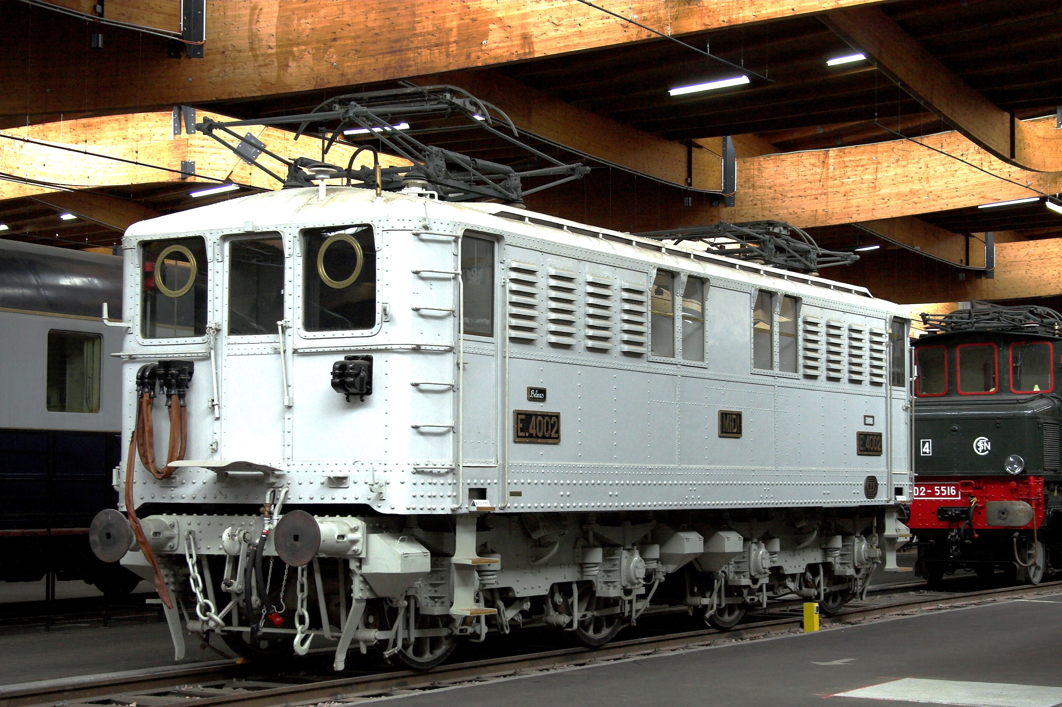 An electric locomotive BB Midi E4002 at Cité du Train de Mulhouse (France) .